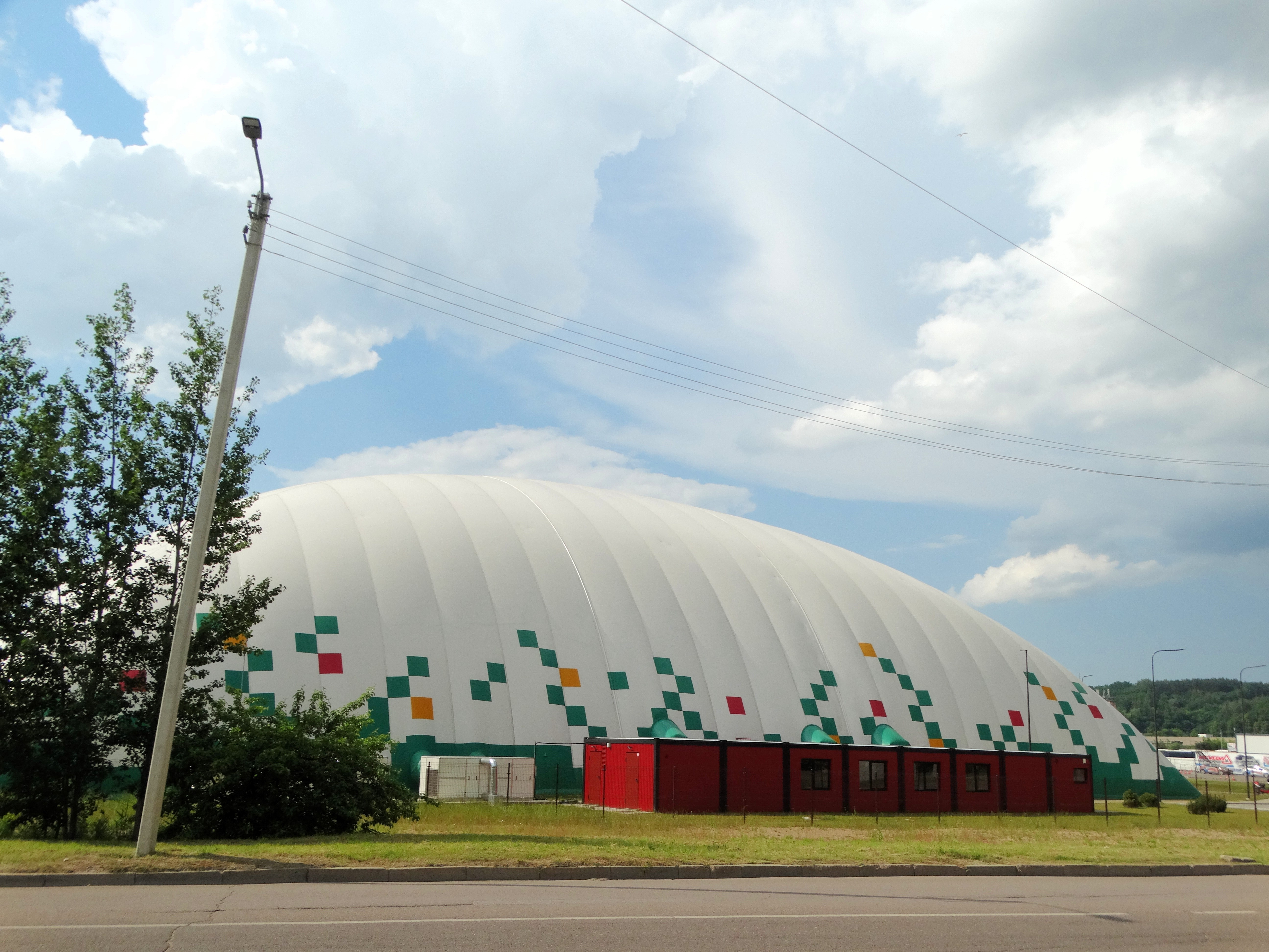 Inflatable indoor arena, Kaunas, Lithuania